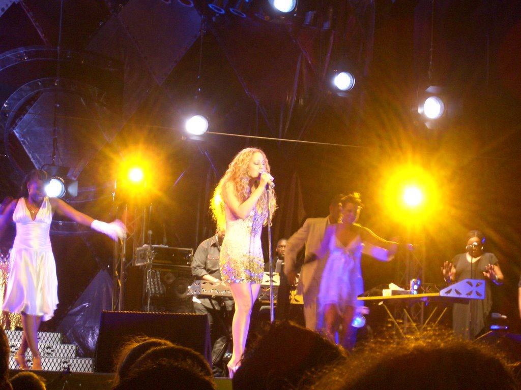 Mariah Carey at a concert in 2005.